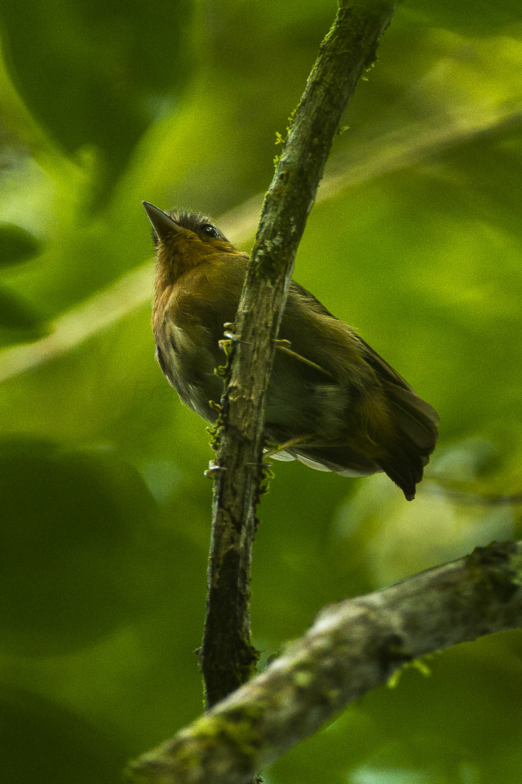 Rufous Gnateater - Intervales - Brazil_S4E9977